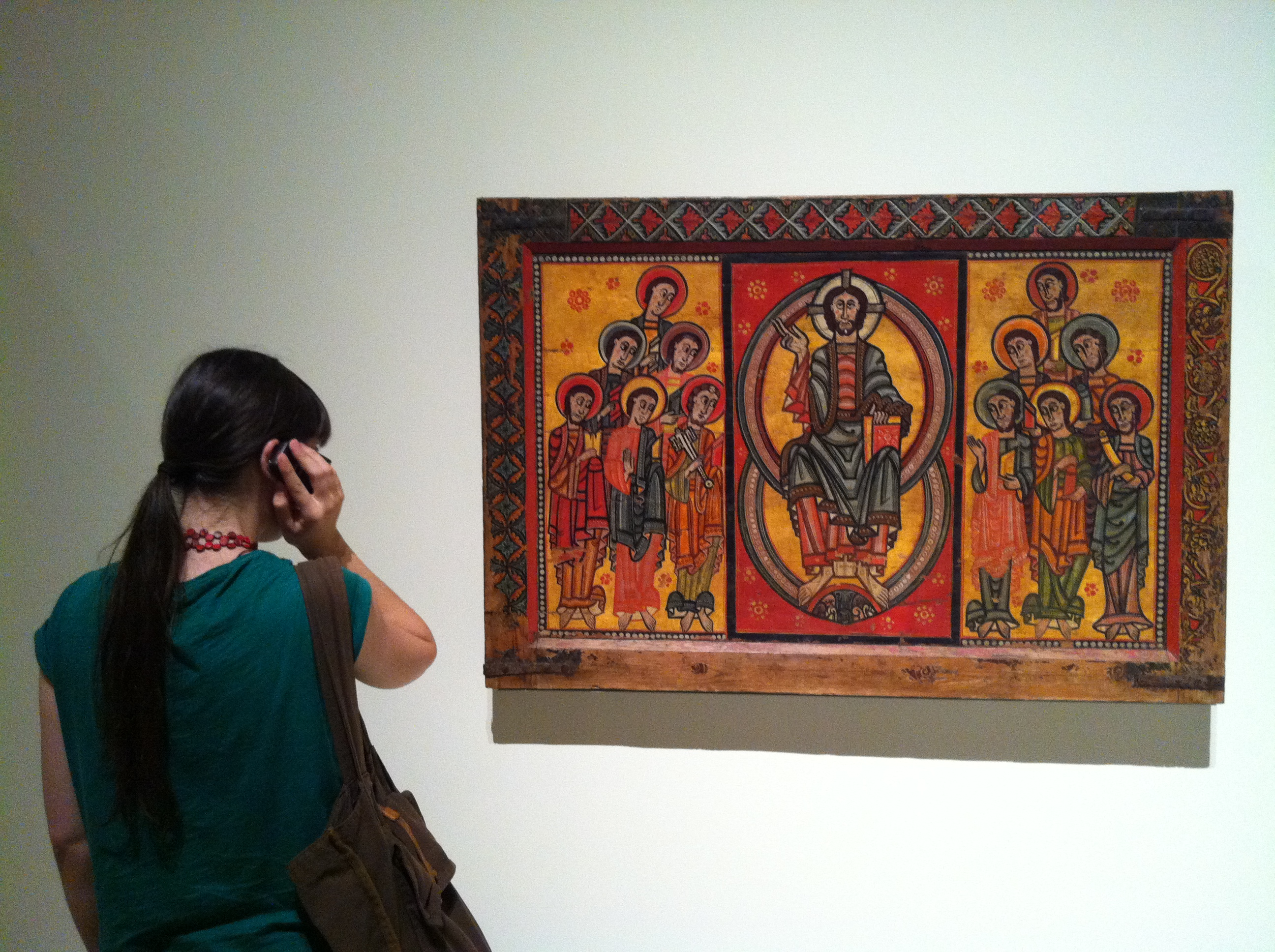 Reopening of the Romanesque collection of MNAC, Museu Nacional d'Art de Catalunya, in Barcelona